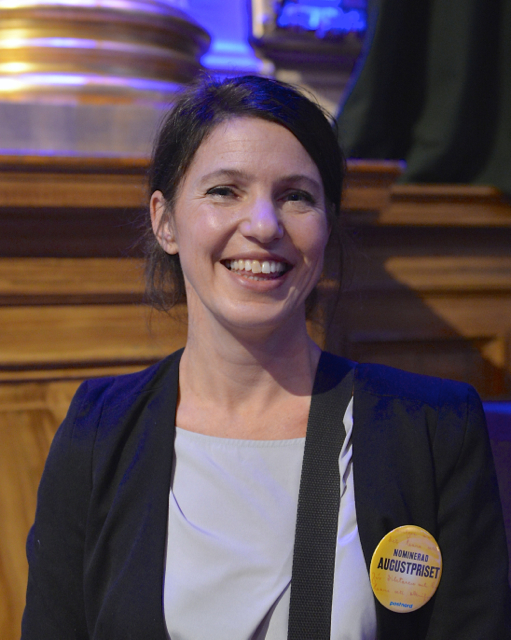 Nominated for the August Prize 2014.